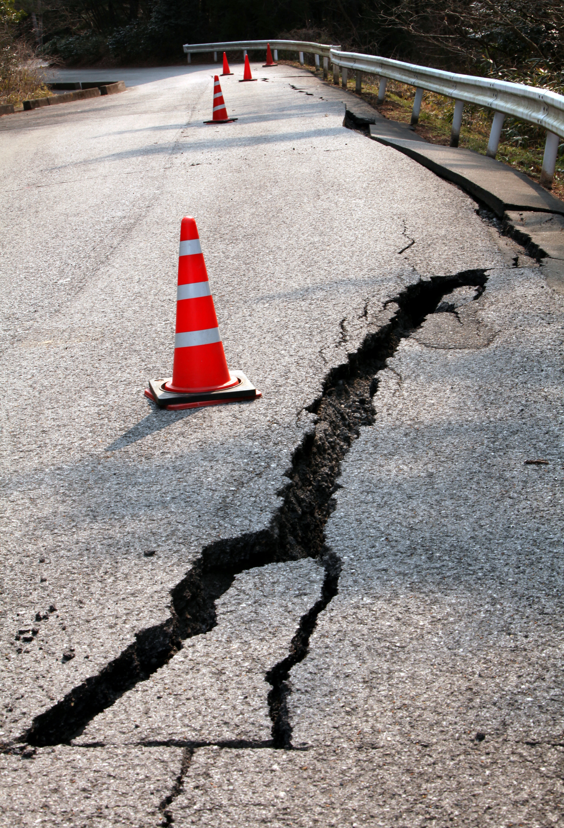 A crack along the road is marked by orange cones at Uranohama Port on Ōshima Island in Kesennuma, Miyagi, Japan, April 2, 2011. U.S. Marines with the 31st Marine Expeditionary Unit were involved as part of Operation Tomodachi, a multinational effort coordinated with Japan to respond to a magnitude 9.0 earthquake and a tsunami that struck northern Japan March 11, 2011. (U.S. Marine Corps photo by Lance Cpl. Brennan O'Lowney/Released) 〔The text has been revised.〕